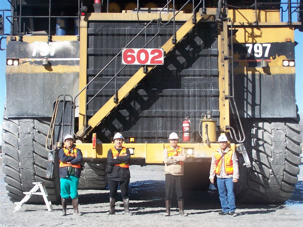 Me and friends in front of the giant Caterpillar 797 Truck, one of the biggest truck in the world. The tires's diameter 380 cms. Some facts from Caterpillar 797 truck empty weight: 557,820 kg (1,230,000 lbs.) Drive: 3524B EUI twin turbocharged and after cooled diesel engine Max Speed: 64 km/h or 40 mph Horse Power: 3500 Suspension: self contained oil pneumatic suspension cylinder on each wheel Height empty: 7.1 metres (23ft 8in) Length: 14.3 metres (47ft 7in) Body Width: 9.0 metres (30ft) Dumping Height: 14.8 metres (49ft 3in) Tire Size: 3.8 metres (12.9ft) in diameter Cost: $5 - 6 million For a machine with weight 500.000 kgs, it's not bad at all that that this truck can reach 45 km/h in just 27 seconds!!!! And this truck can carry up to 400 tons!!! So you'd better move aside when this truck is running on the road